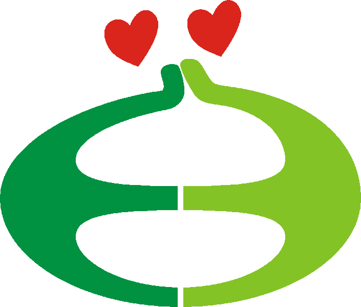 A proposed symbol for Edzperanto.